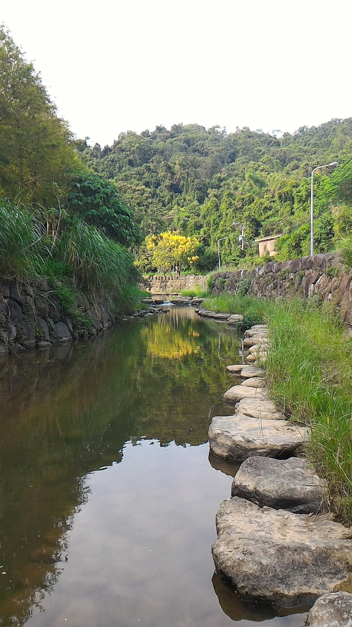 Taipei's Neigou Creek